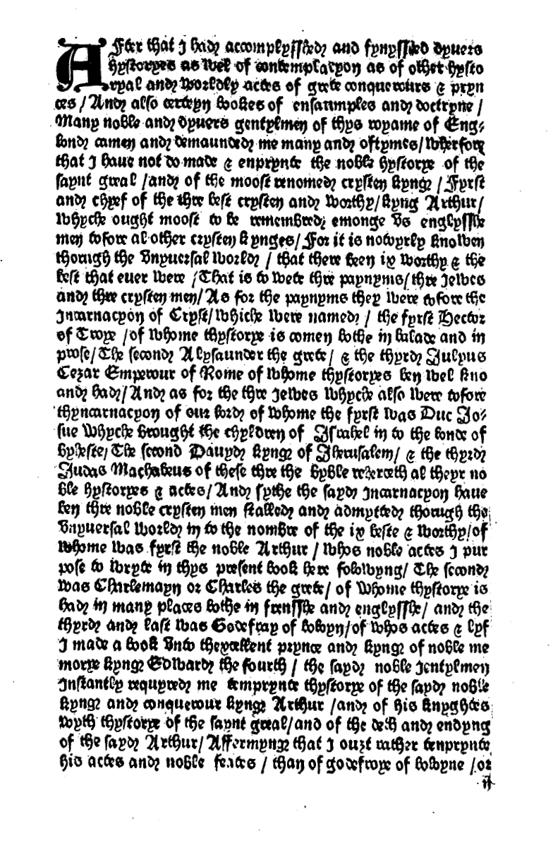 First page of William Caxton's edition of Sir Thomas Malory's Le Morte Darthur 1485